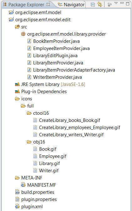 Screenshot of the code generated by the open source software EMF.